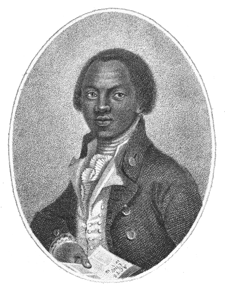 Portrait of abolitionist Olaudah Equiano, from page 8 of the PDF version of The Interesting Narrative of the Life of Olaudah Equiano, or Gustavus Vassa, the African Portait painted by William Denton and engraved by Daniel Orme.[1]